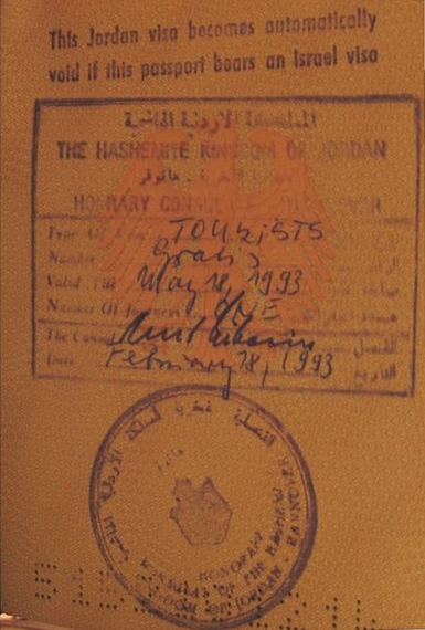 Jordanian Visa dating from 1993 in a German passport, accompanied by a stamped remark that it becomes automatically void if the passport bears an Israeli visa